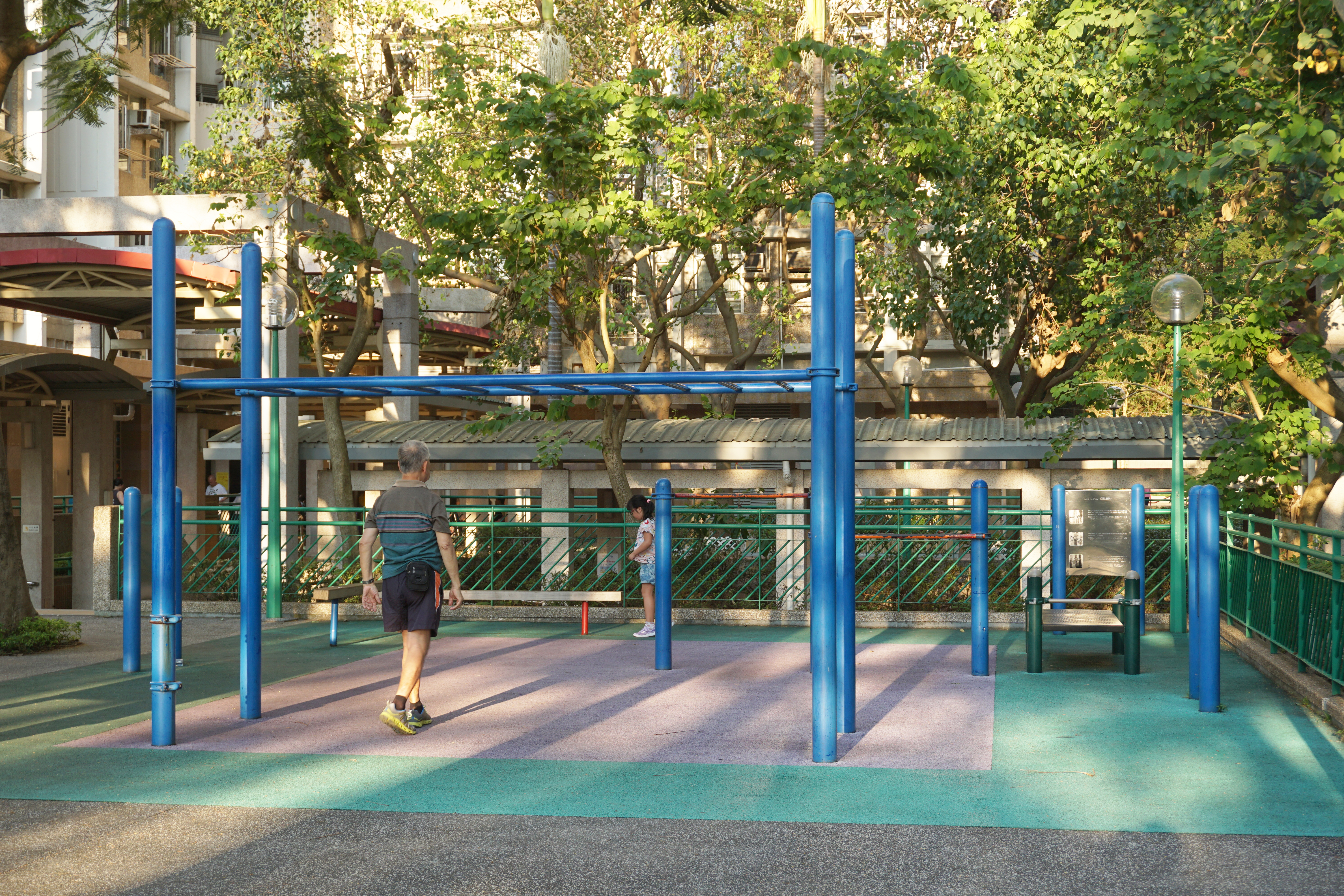 Hiu Lai Court in Sau Mau Ping, Hong Kong.